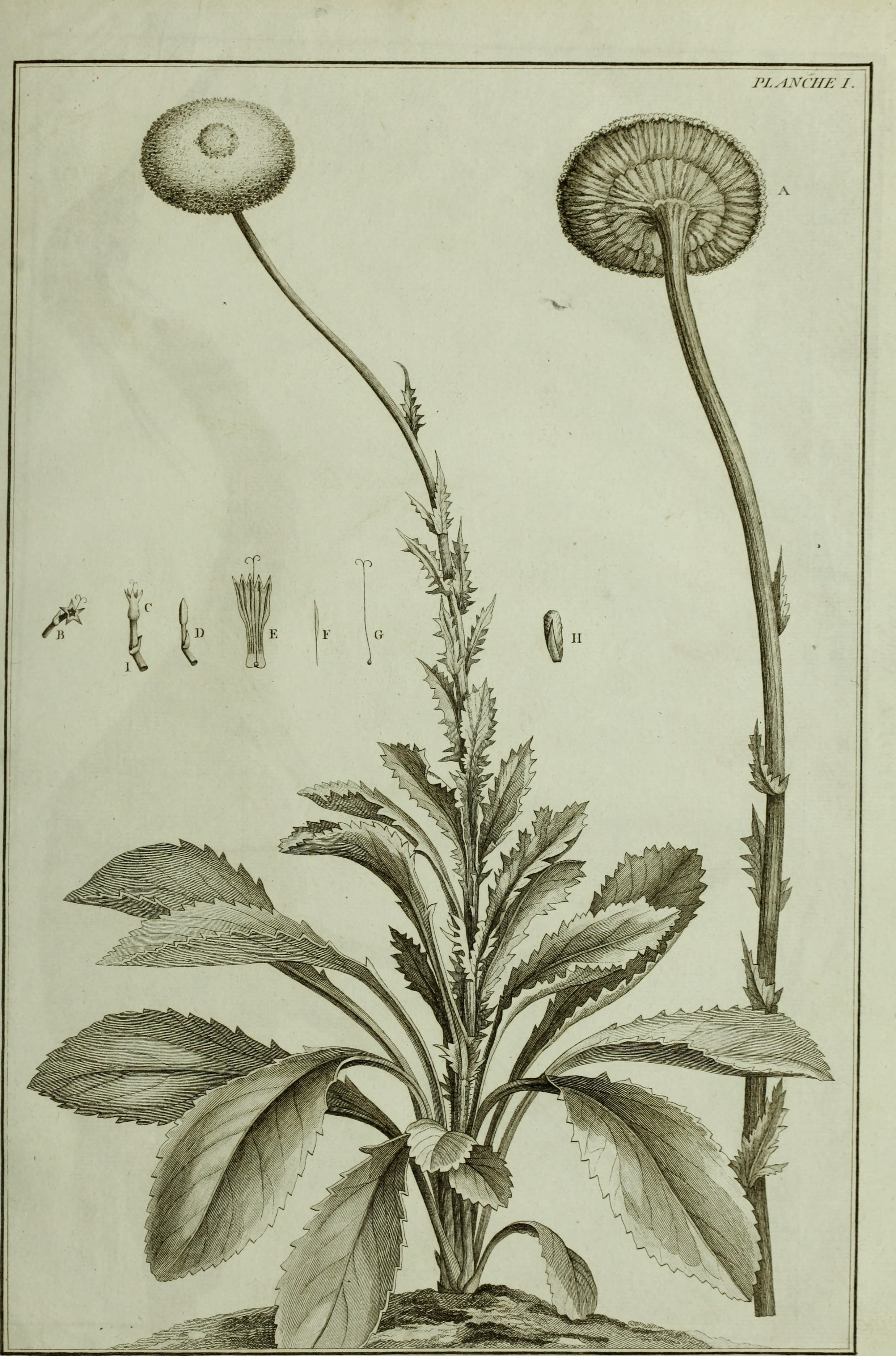 Title: Actes de la société d'histoire naturelle de Paris : tome premier, premiere partie Year: 1792 (1790s) Authors: Société d'histoire naturelle de Paris Subjects: Natural history Publisher: Paris : l'Impr. de la Société Text Appearing Before Image: ' Text Appearing After Image: '